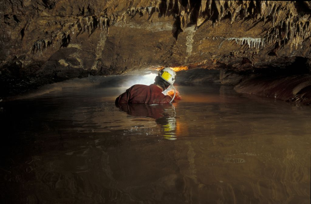 Styx Creek in the Styx branch of Baradla Cave